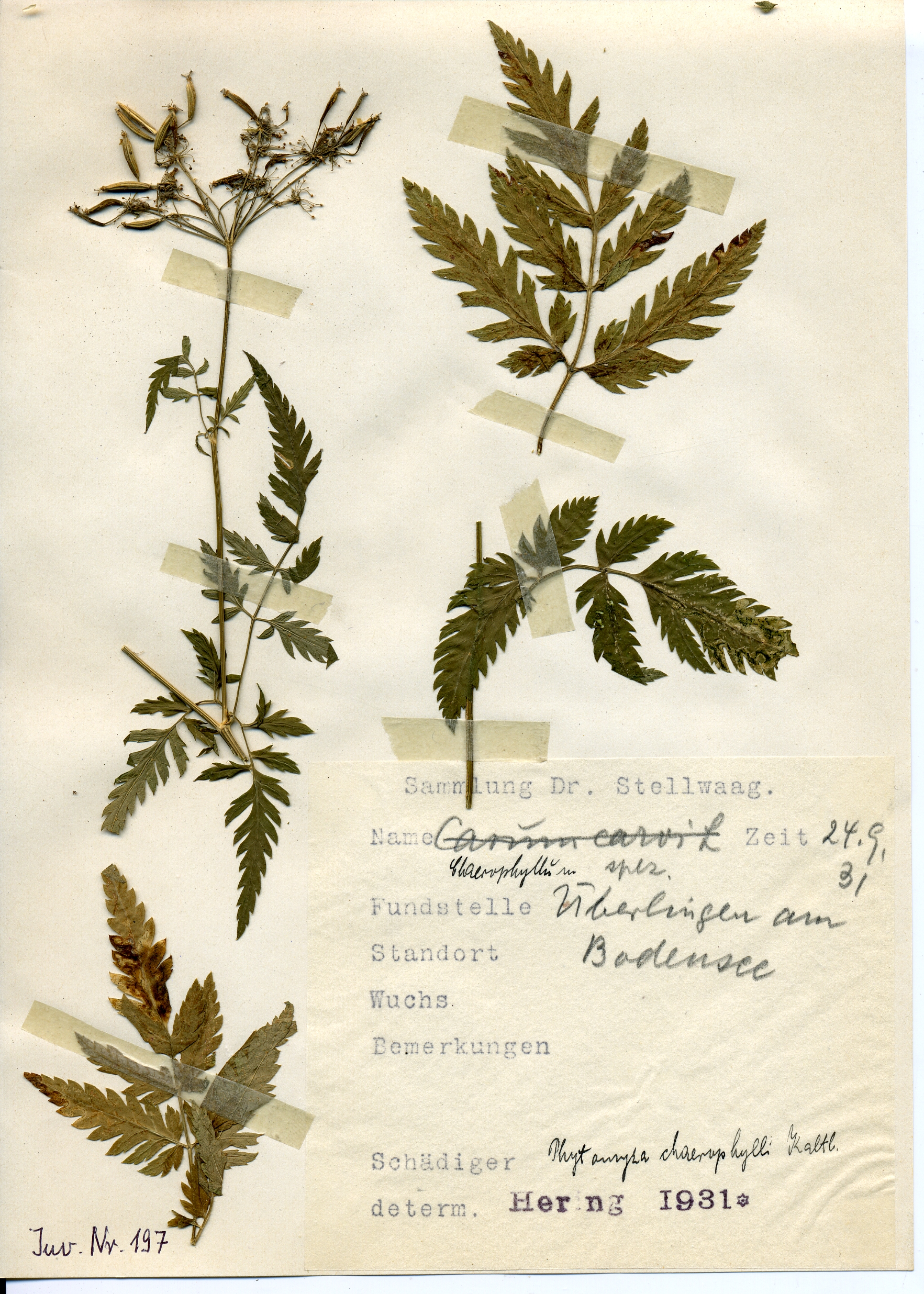 Leaf-mark Coll. Friedrich Ludwig Stellwaag. Host plant: Chaerophyllum (Umbelliferae) - Parasite: Phytomyza chaerophylli (Agromyzidae) – Location: Überlingen, Bodensee, 24.IX.1931, det. Hering 1931, being processed by Gisela Schadewaldt.